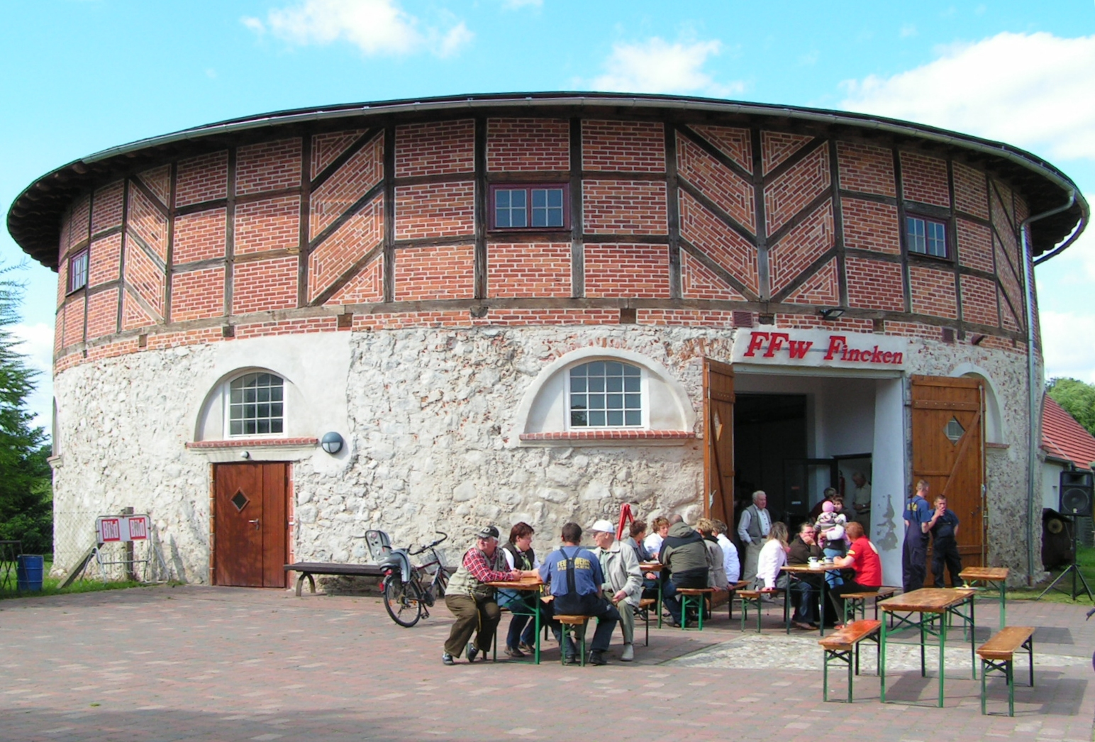 Round barn in Fincken, Landkreis Müritz, Mecklenburg-Vorpommern, Germany